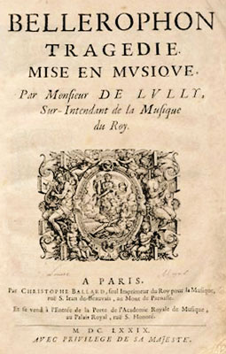 Bellérophon, tragédie en musique by J.-B. Lully, title page of the libretto, published 1679